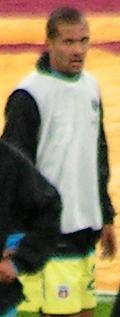 Geraldo Alves